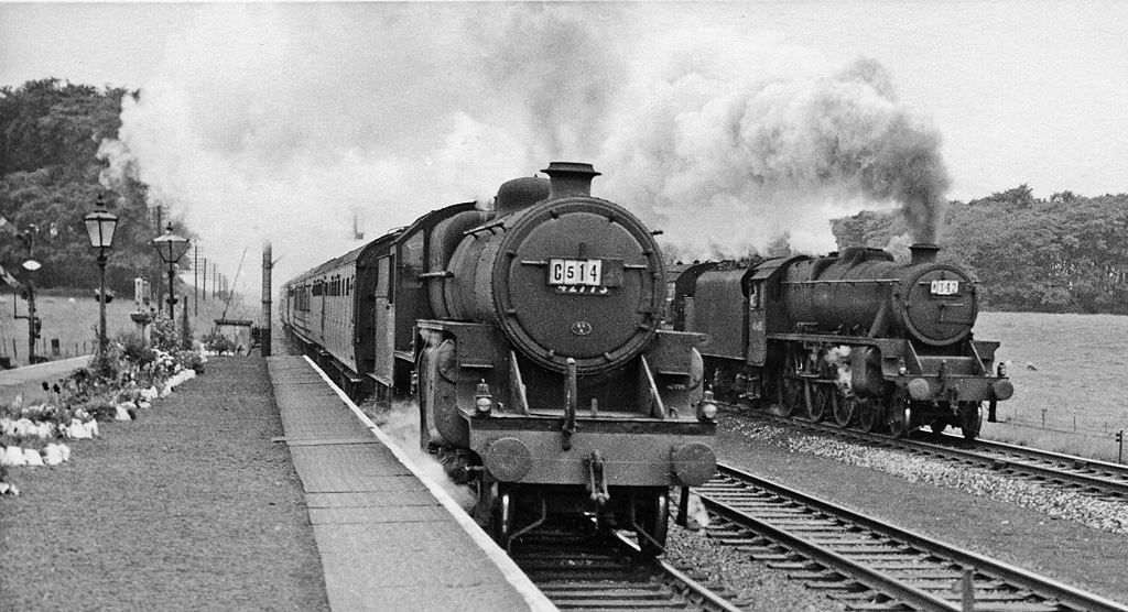 Up expresses racing at Salwick. View westward, towards Blackpool and Fleetwood. This is another shot taken on the thrilling Summer Saturday (1 August 1959) I spent there, cf. SD4632 : Salwick Station, with trains racing: here the trains are coming from Blackpool - the opposite direction. On the left is Hughes/Fowler 5P4F 2-6-0 No. 42775 on an unidentified Relief, that on the right is headed by Stanier Class 5 4-6-0 No. 45428 on the 09.35 Blackpool North to Nottingham. (No. 45428 has been preserved and nowadays carries a nameplate, 'Eric Treacy' - in memory of the celebrated railway photographer and Bishop of Wakefield).